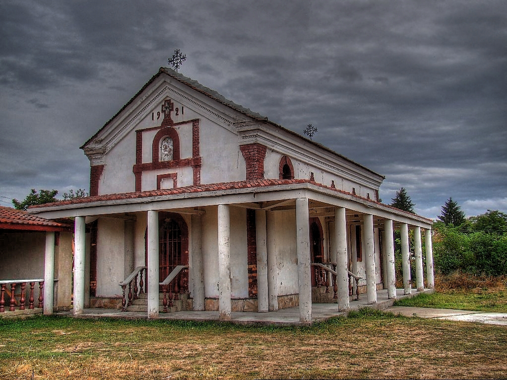 Church v. Republic of Mali.